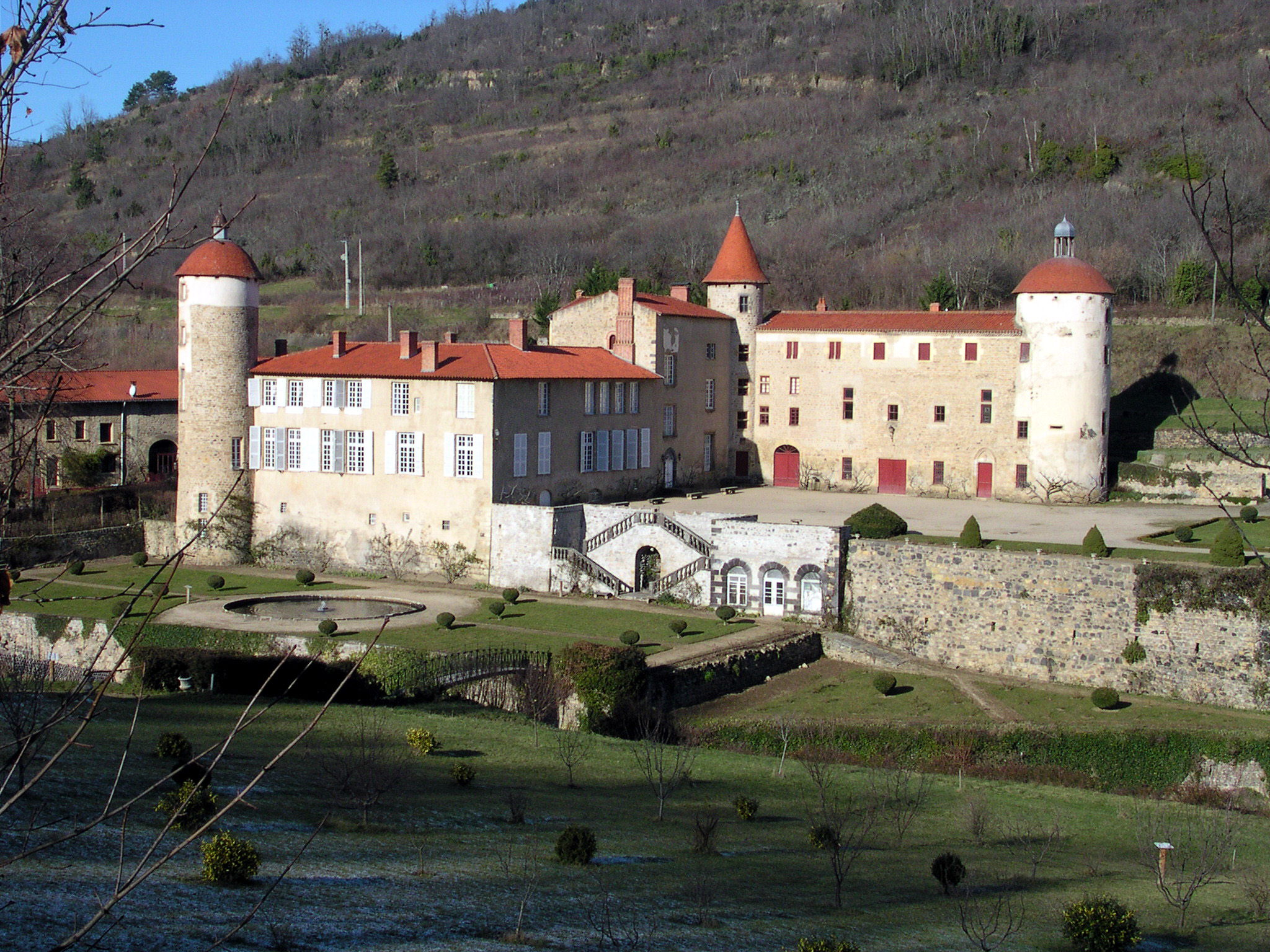 Castel of La Batisse near the village of Chanonat (Puy-de-Dôme, France).